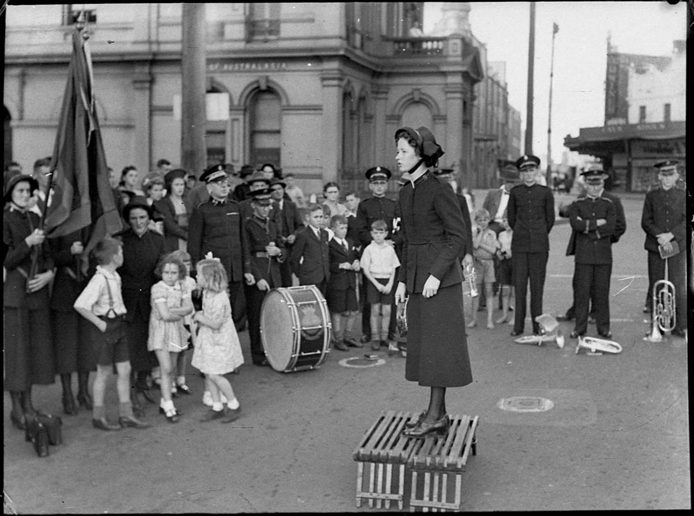 Format: Photograph Find more detailed information about this photograph: .au/item/itemDetailPaged.aspx?itemID=30906 Search for more great images in the State Library's collections: .au/search/SimpleSearch.aspx From the collection of the State Library of New South Wales